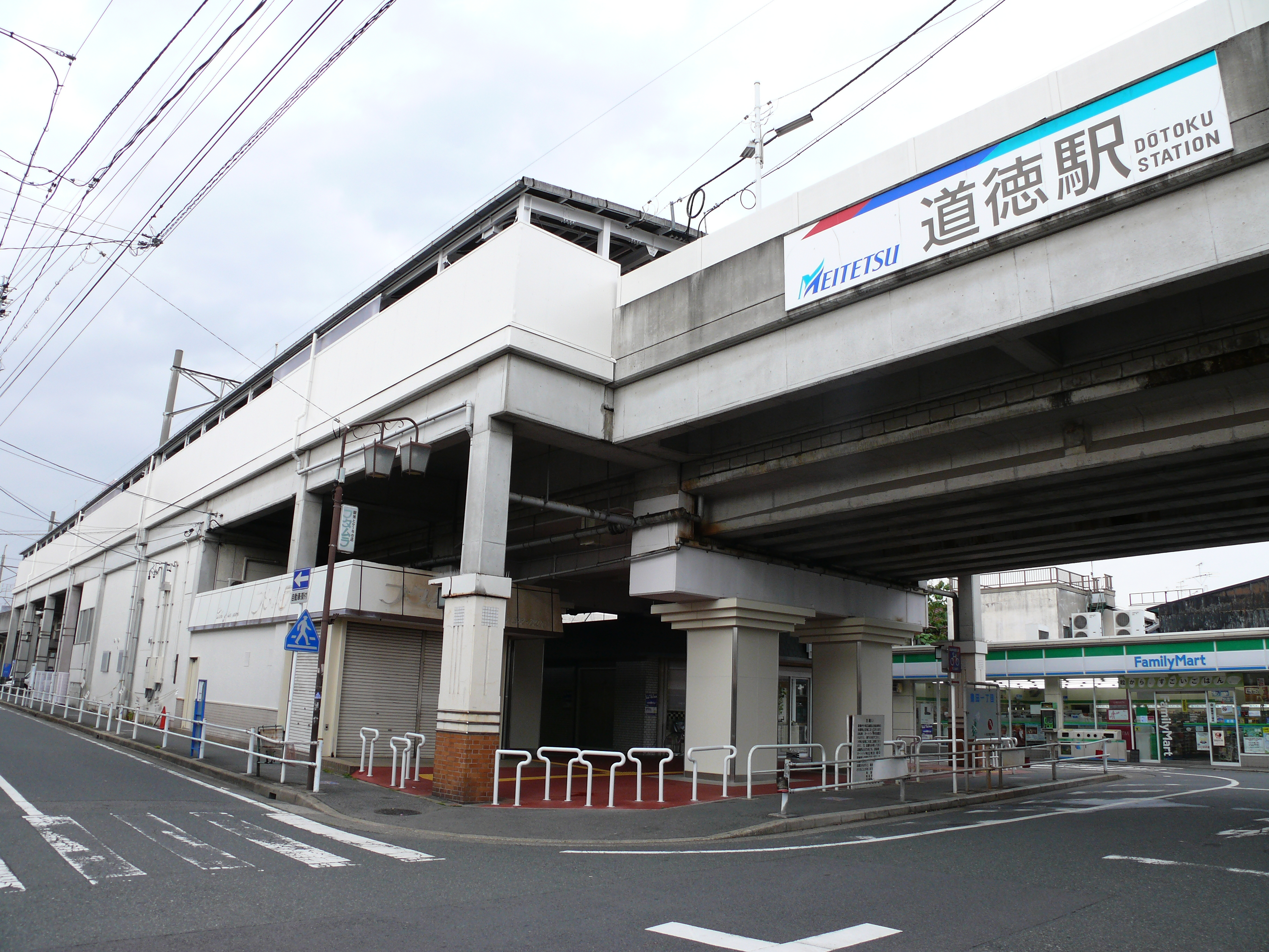 Meitetsu Dotoku Station.